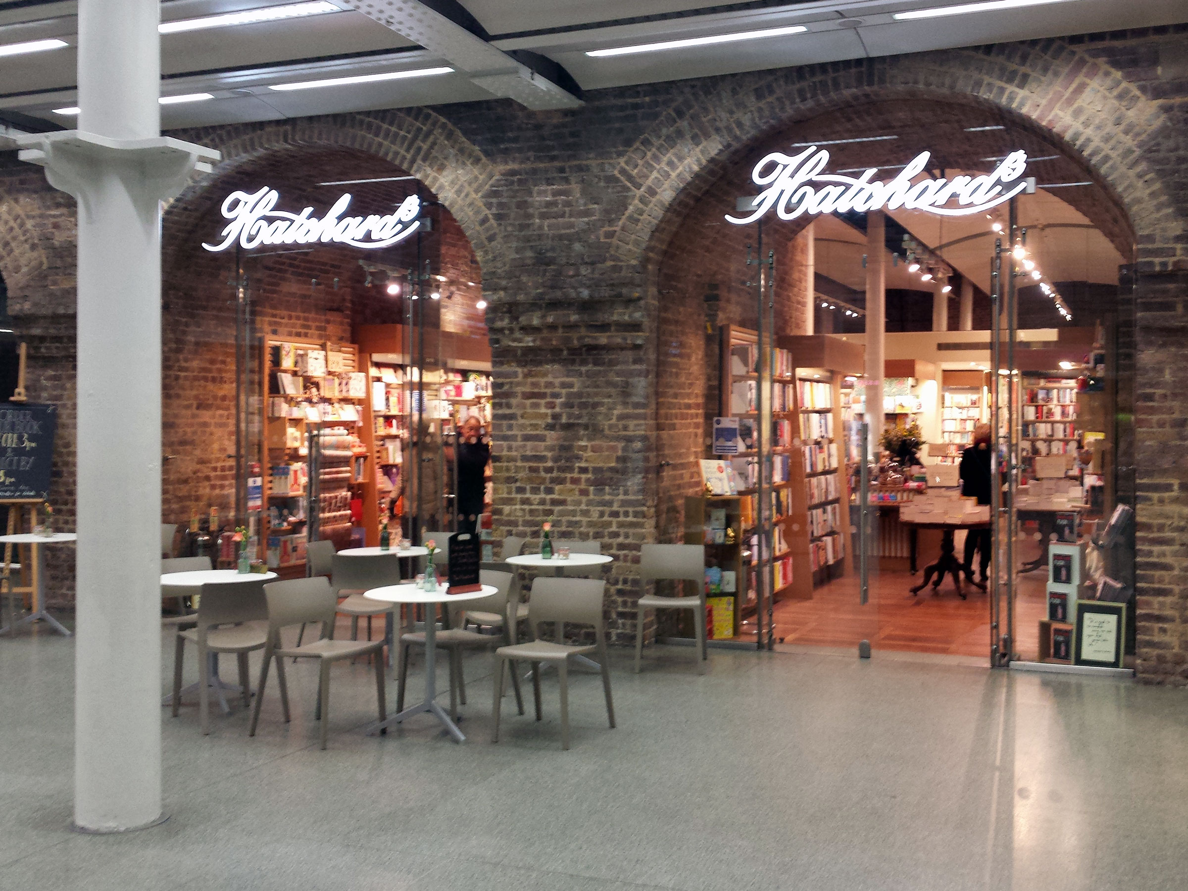 Hatchards bookstore at St Pancras station, London